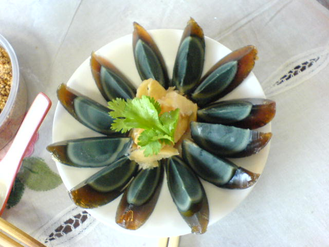 松花蛋, 皮蛋, Century eggCentury Egg